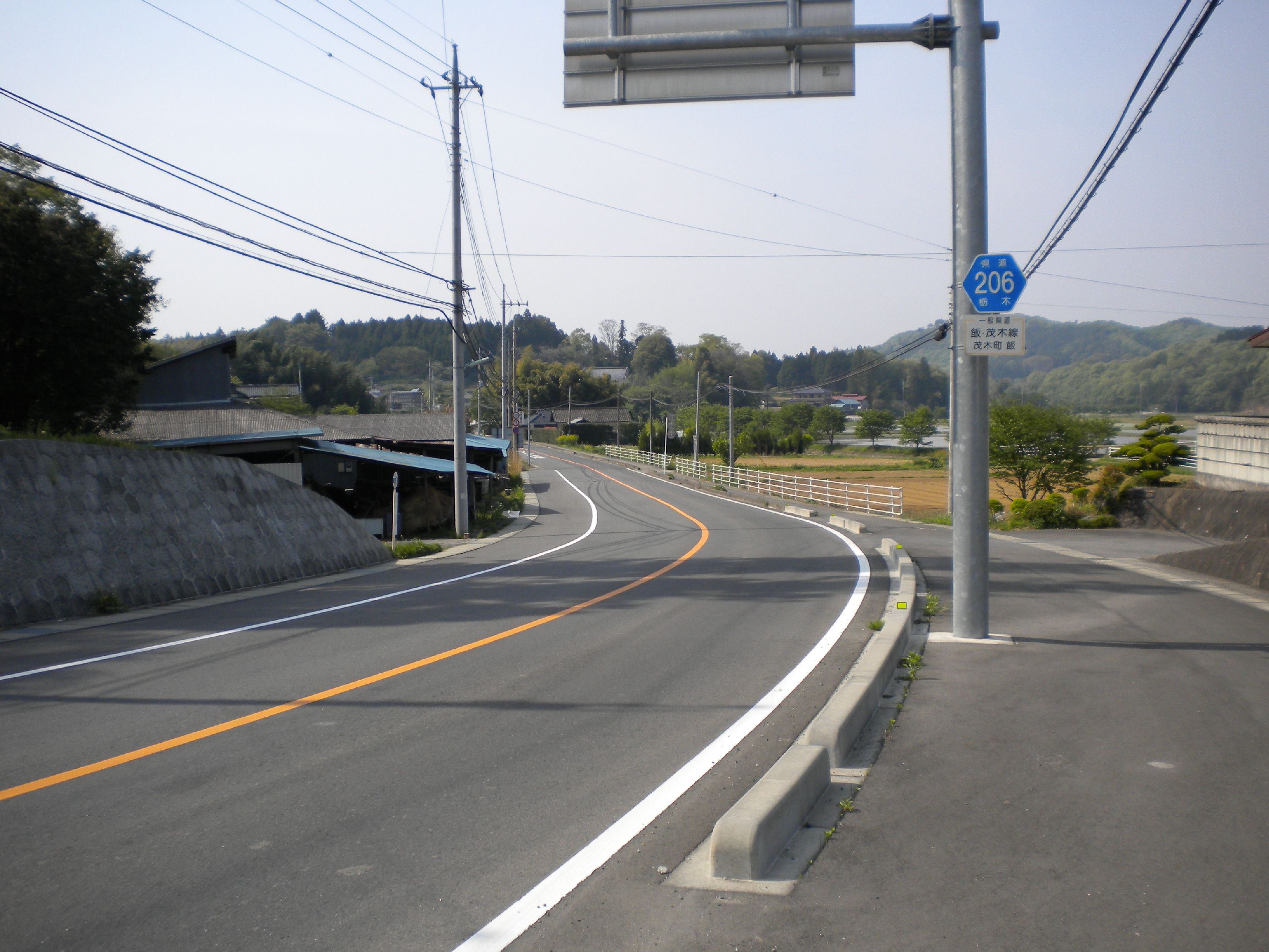 Tochigi prefectural road No.206 on Motegi town